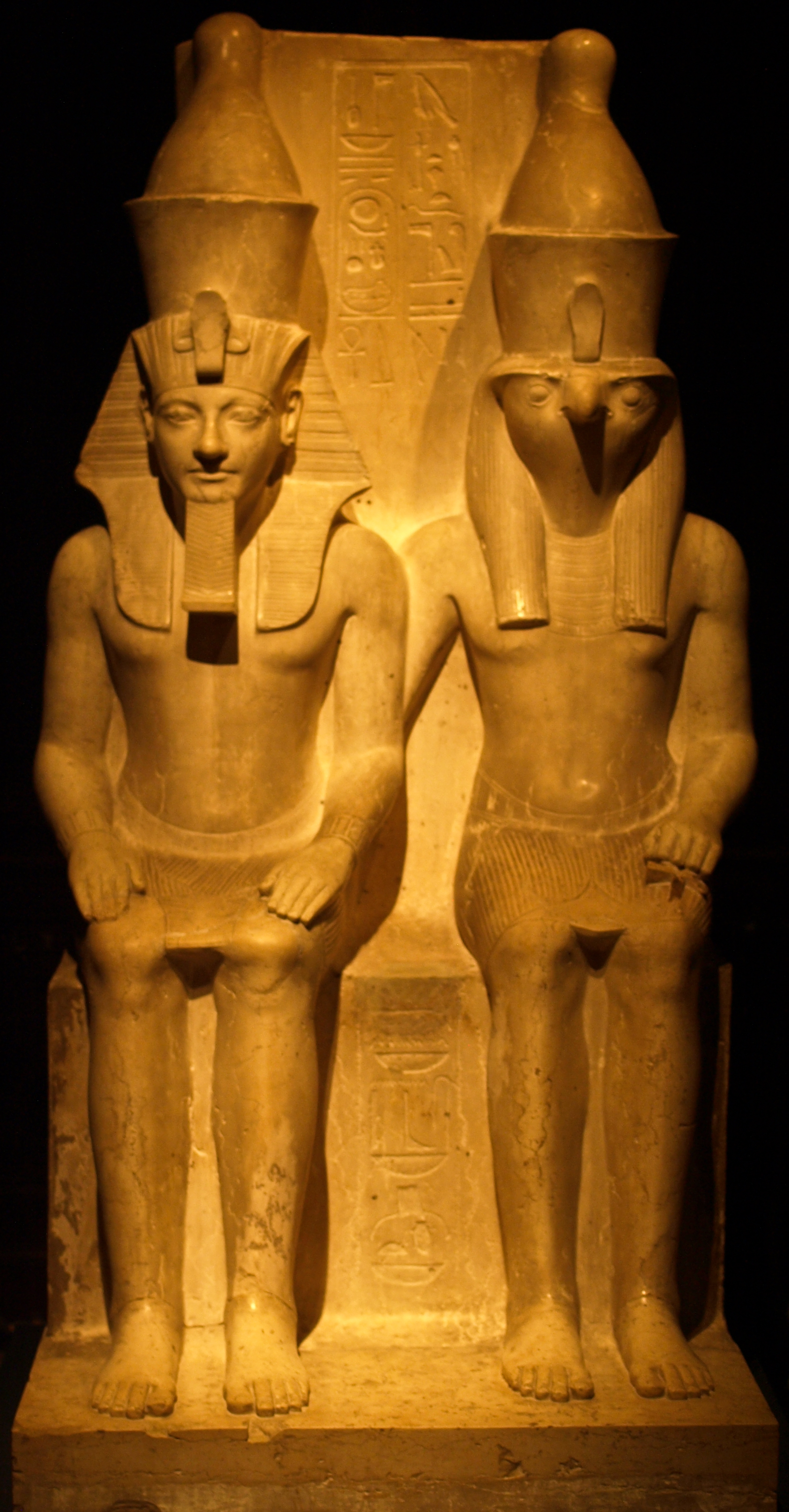 Statue of Horemheb and the God Horus Made of limestone 18th dynasty, reign of Horemheb (circa 1343-1315 BCE) ÄS 8301